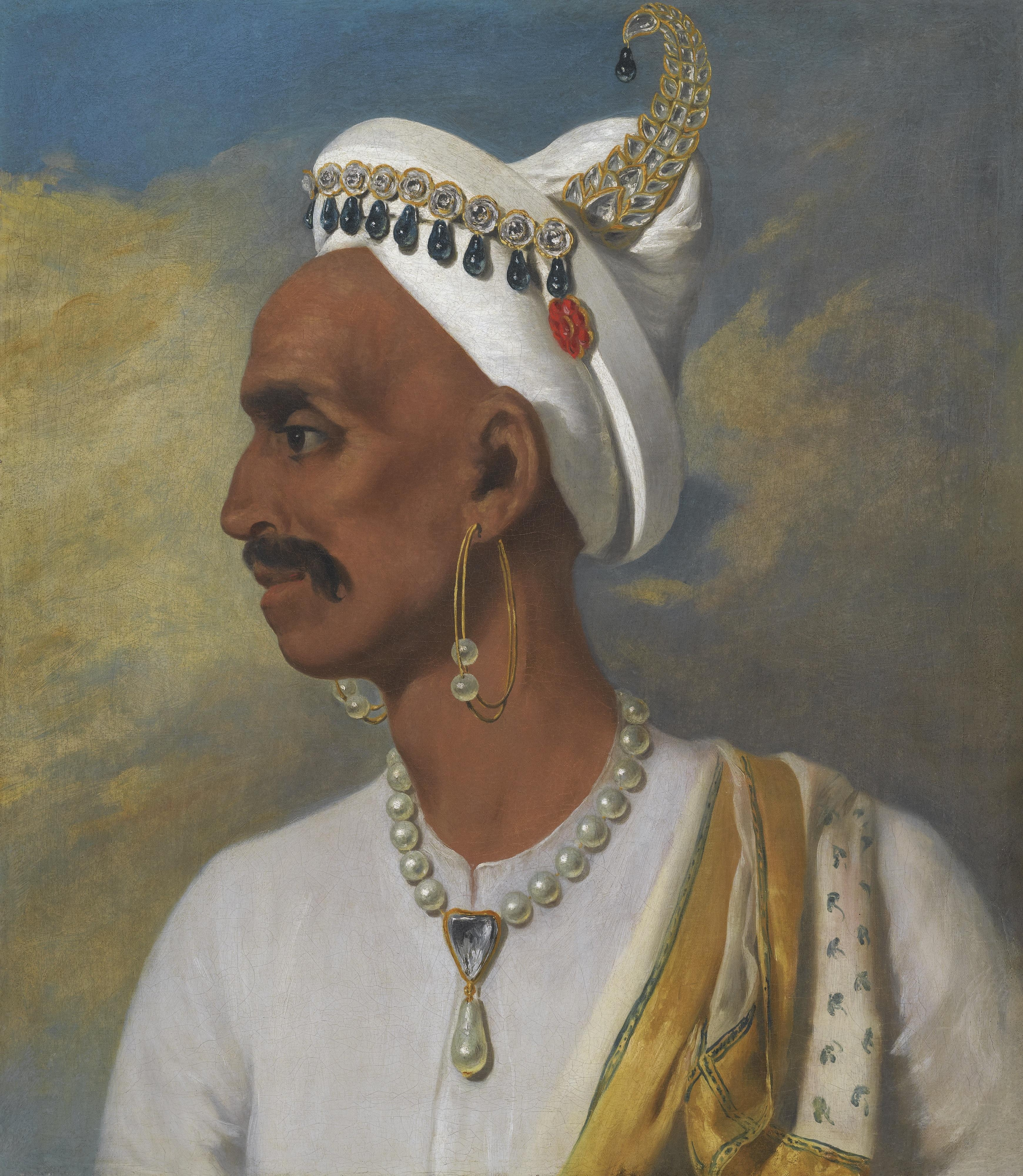 John Thomas Seton Portrait of Nana Fadnavis Artwork by John Thomas Seton, Portrait of Nana Fadnavis, Made of oil on canvas Dimensions: 24.5 X 21.5 in (62.23 X 54.61 cm) Medium: oil on canvas Creation Date: 1778 Signed